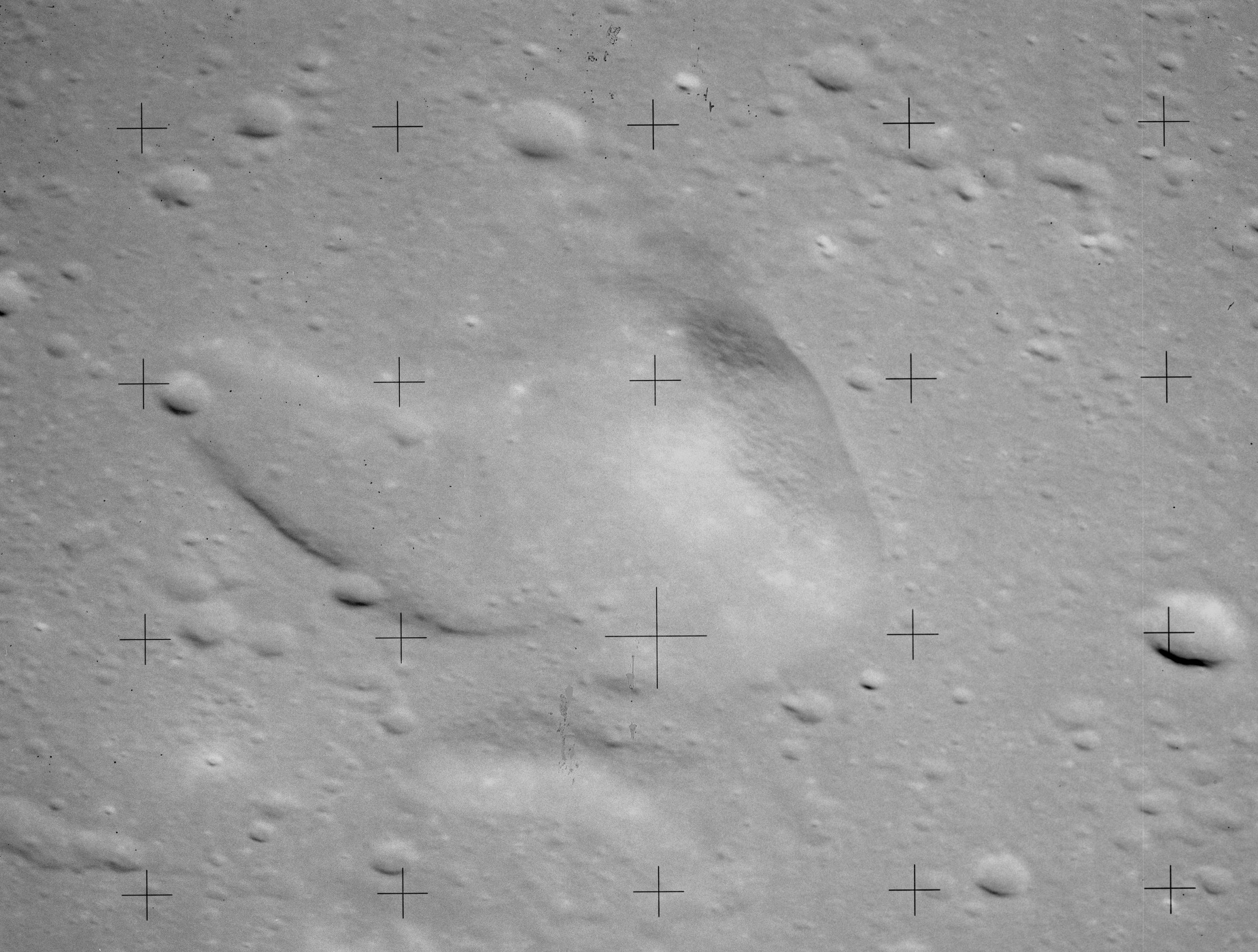 Oblique view of Fedorov crater. The brightness and contrast have been altered from the original.